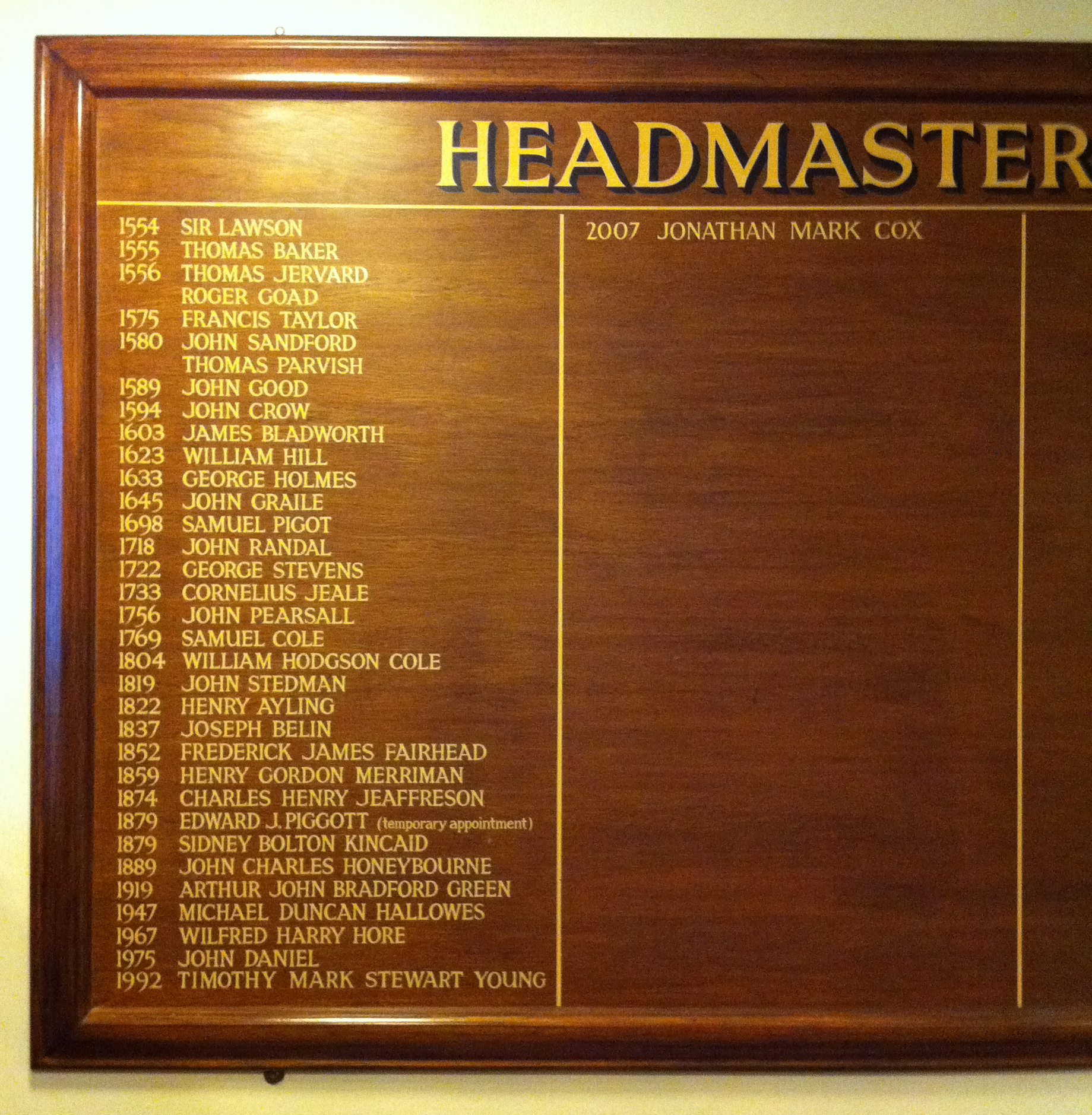 Photograph of the board displaying the names of the headmasters of the Royal Grammar School Guildford.